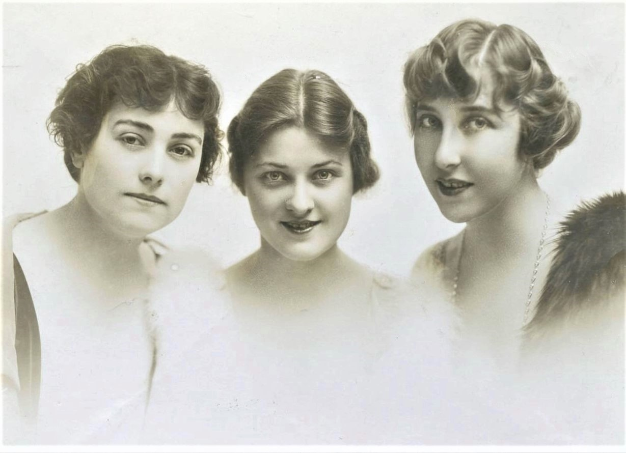 L. to R. : Louise Kelley, Vivian Wessell & Josephine Whittell in the Broadway's musical The Only Girl - publicty still (cropped)